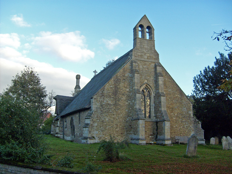 St Michael's Church in Longstanton, Cambridgeshire, United Kingdom